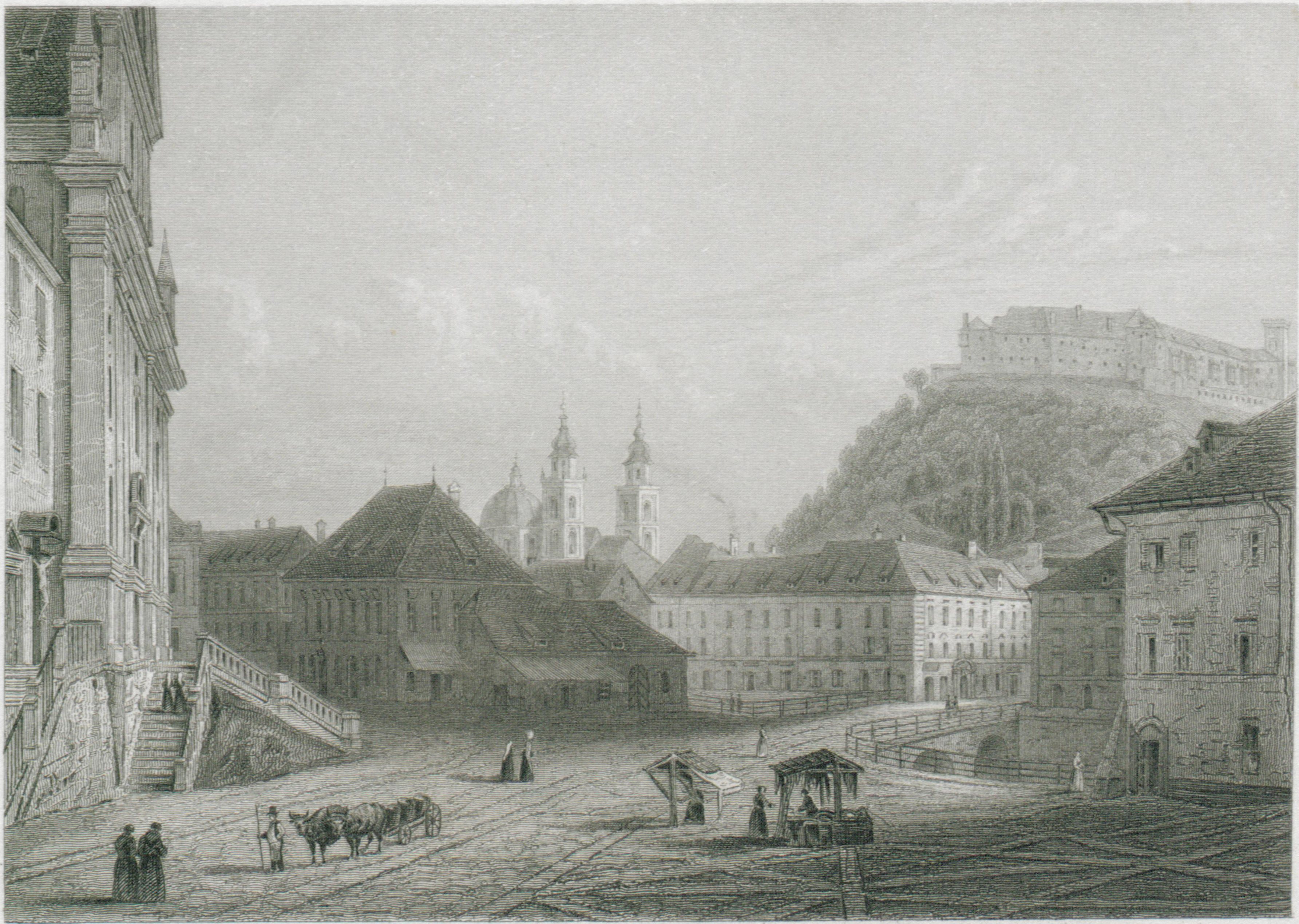 Ljubljana view